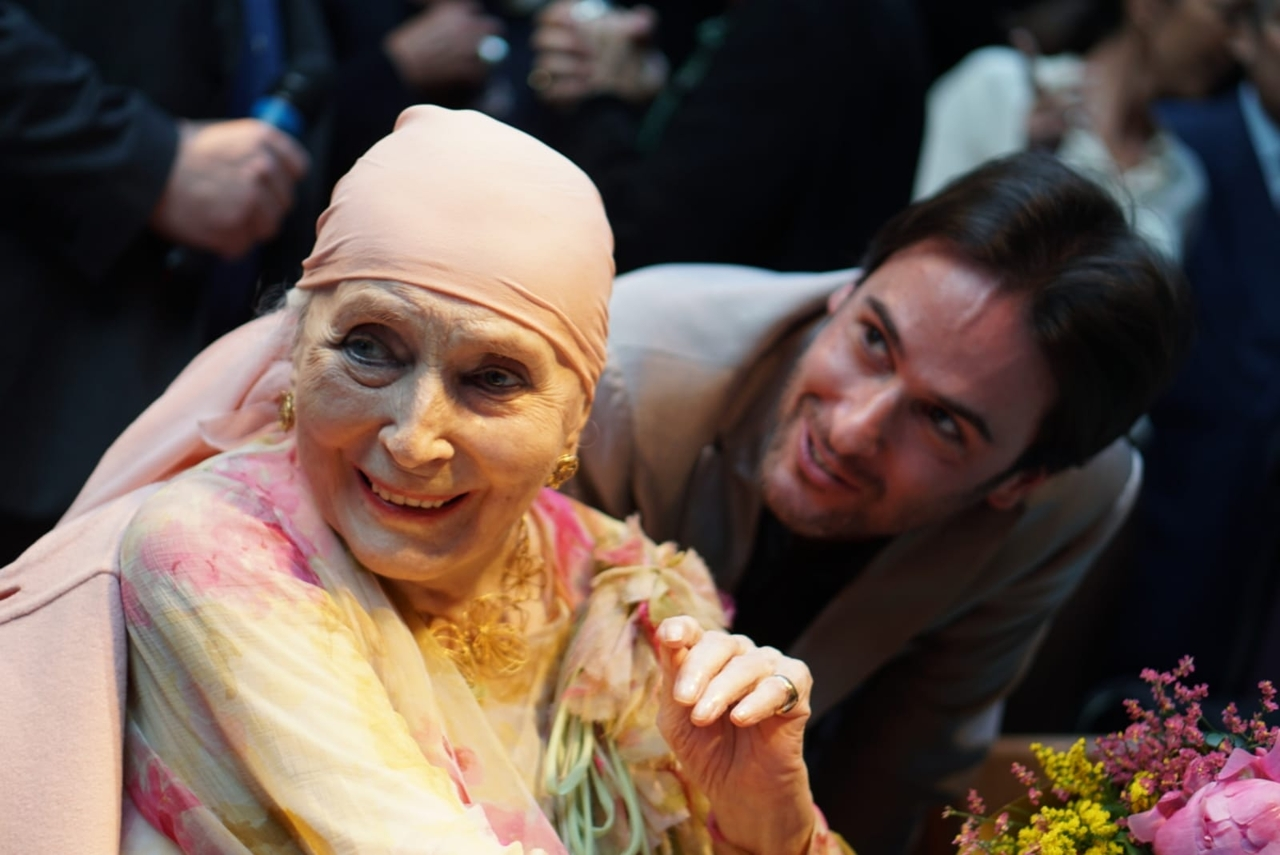 Valentina Cortese and Enrico Rotelli